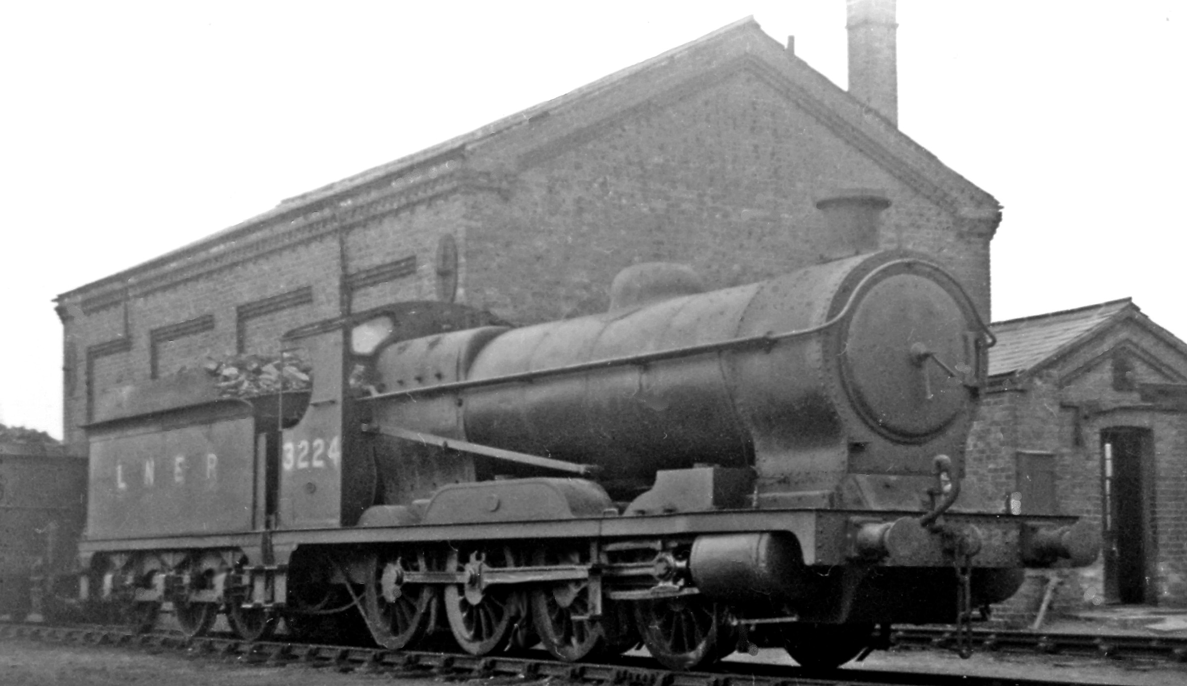 A Great Central 0-8-0 at Retford Great Northern Locomotive Depot. One of the surviving ex-GC 0-8-0's, LNER Class Q4 No. 3224, rests on a Sunday from its work hauling local goods trains in the area. In 1947 there were two Locomotive Depots at Retford - see SK7080 : Ex-Great Central Robinson Atlantics at Retford (GN) Locomotive Depot - allocated 55 locomotives between them:- 4 4-4-2, 2 4-4-0, 13 2-8-0, 3 0-8-0, 30 0-6-0, 2 0-6-2T, 1 0-4-0T.